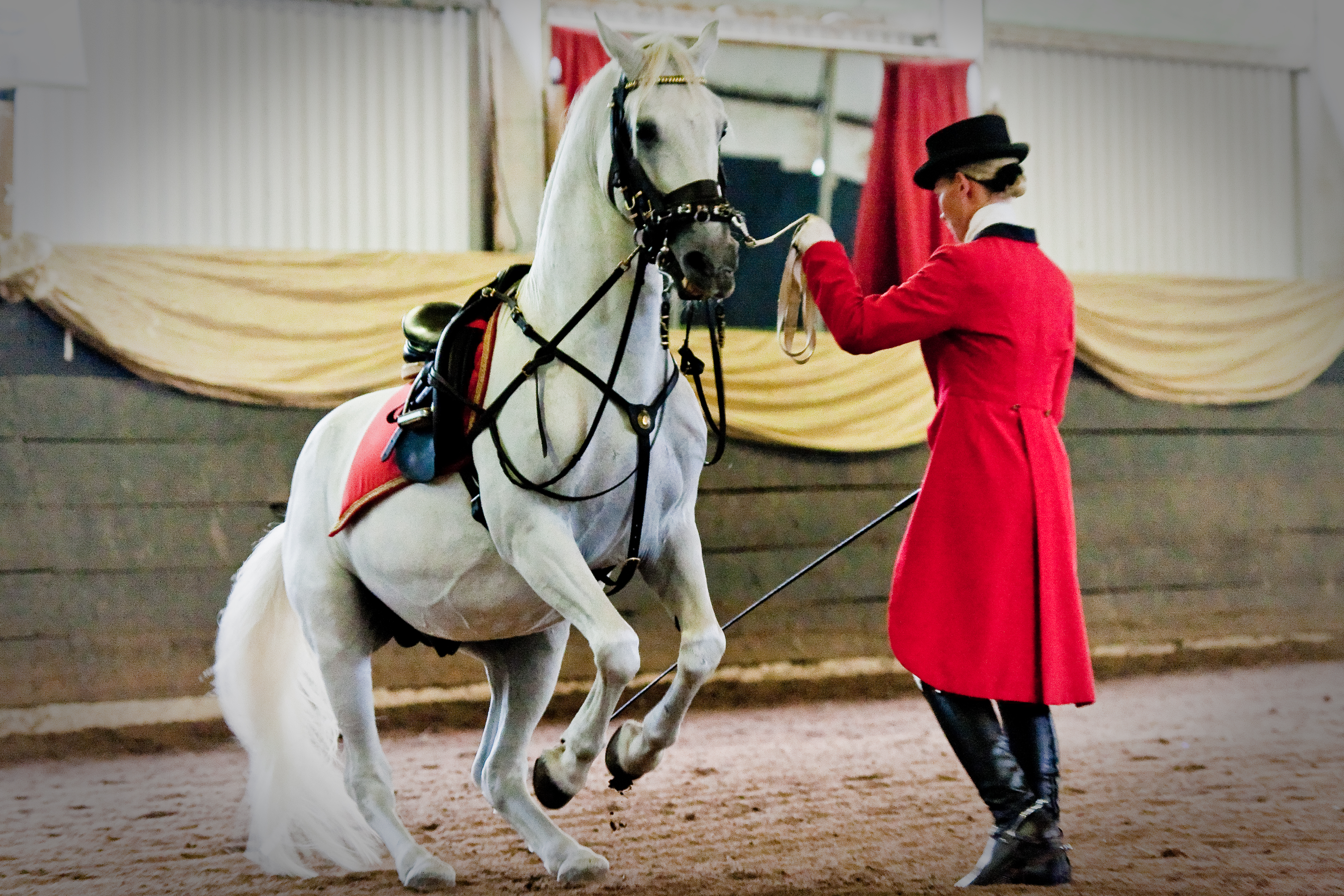 Maestoso Erdem and Rider Simone Howard See here for more .